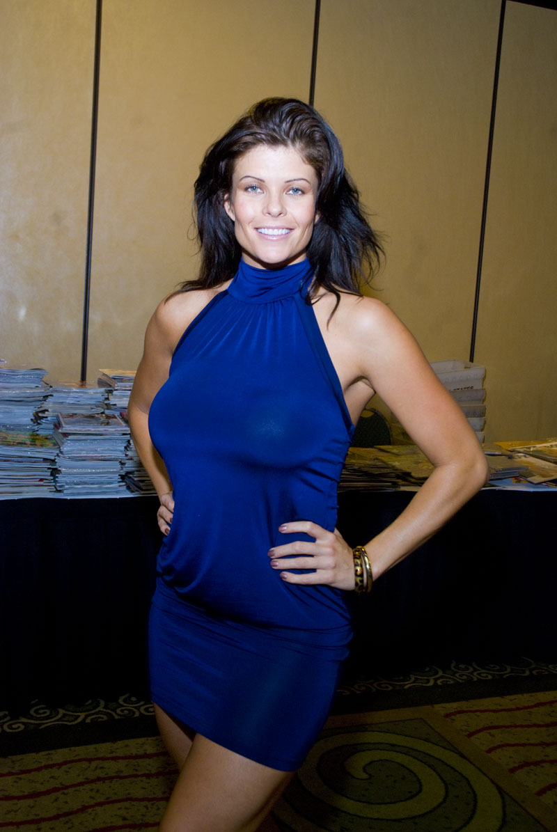 Rebecca Scott, Playboy's Playmate of the Month for August 1999, taken at Glamourcon 44 Chicago on August 23, 2008 in Rosemont, IL, USA by Adam Bielawski